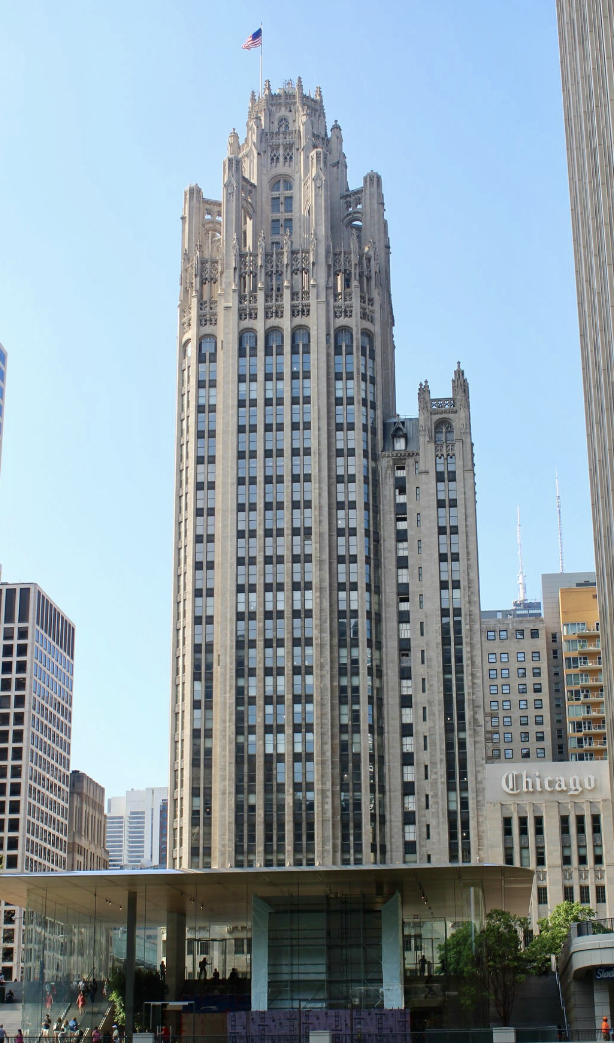 Tribune Tower in April 2019